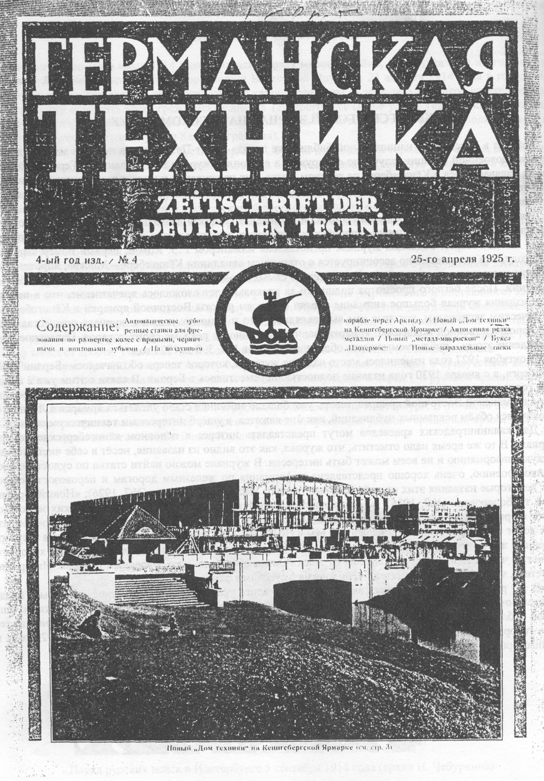 German technology magazine, with the House of technology in Kaliningrad on the front page.